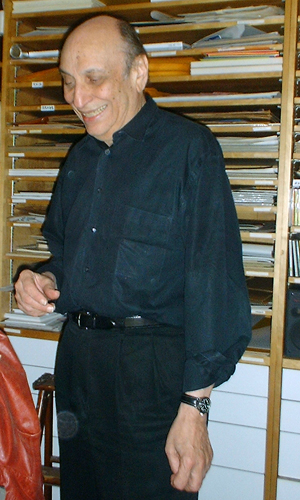 Photograph of Milton Glaser taken in his office in NYC in May 2003